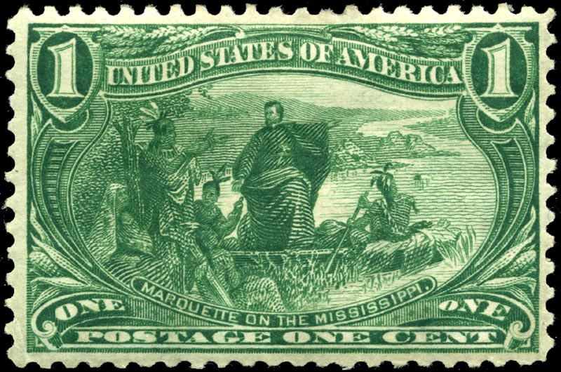 United States 1c stamp of 1898 Trans-Mississippi issue